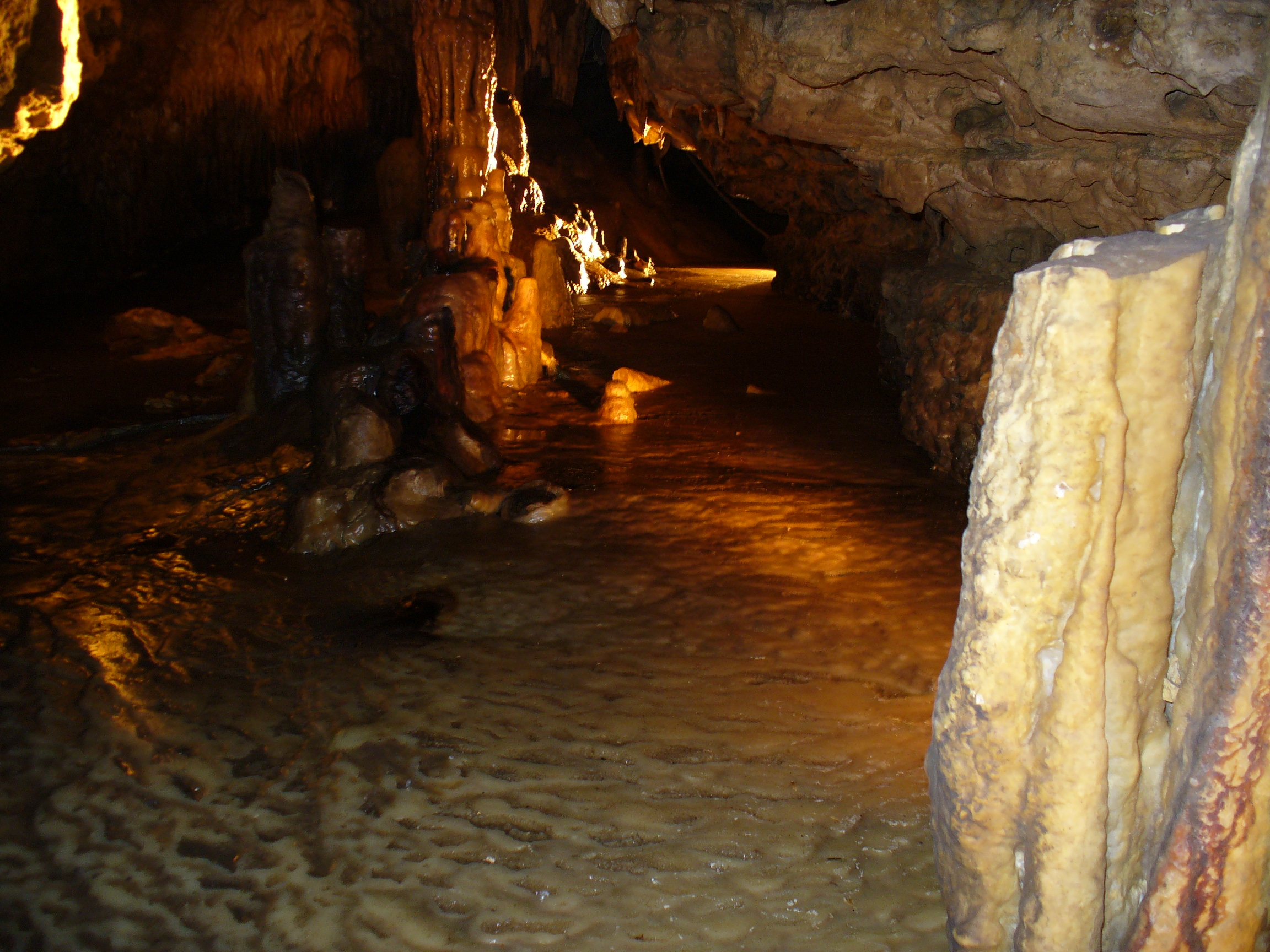 Inside Cave of the Mounds